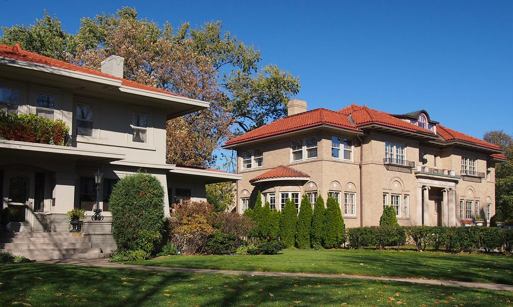 West Summit Avenue Historic District, St Paul, Minnesota, USA